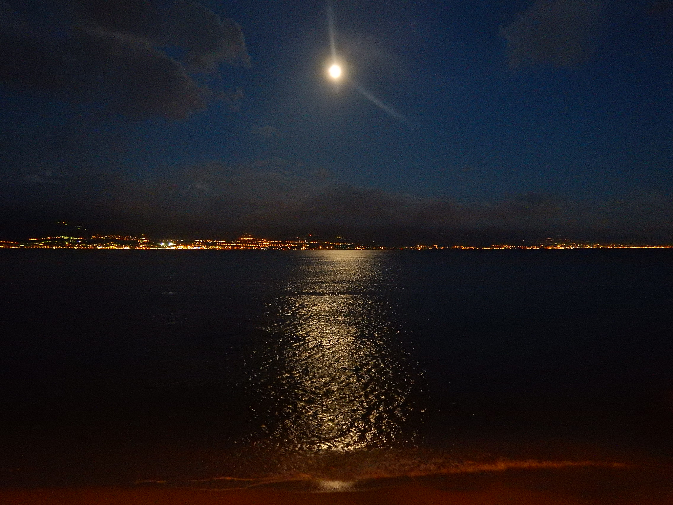 the Strait of Messina from the beach of Paradiso, Messina, sicily